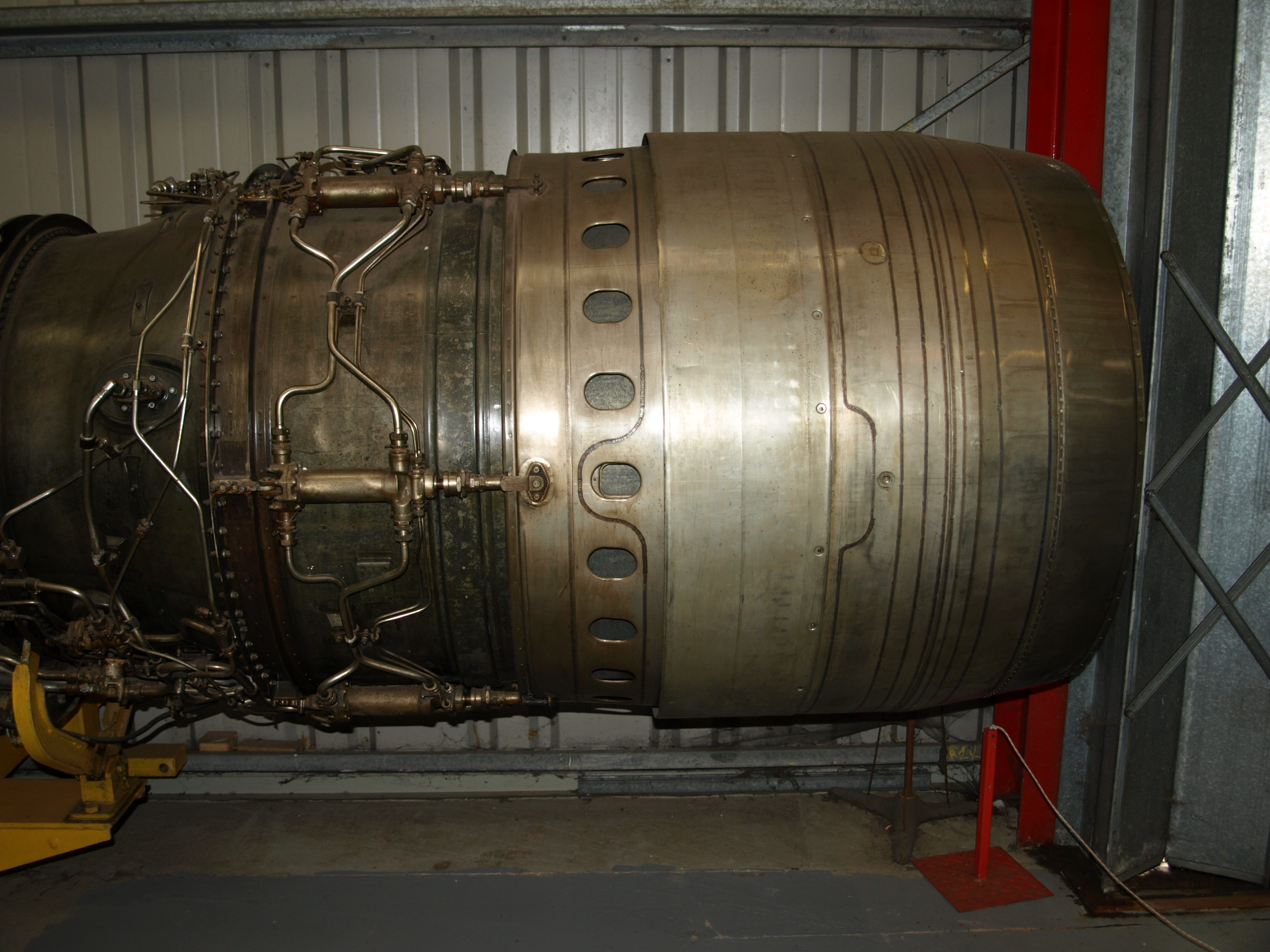 Afterburner section of a Rolls Royce Spey turbofan engine